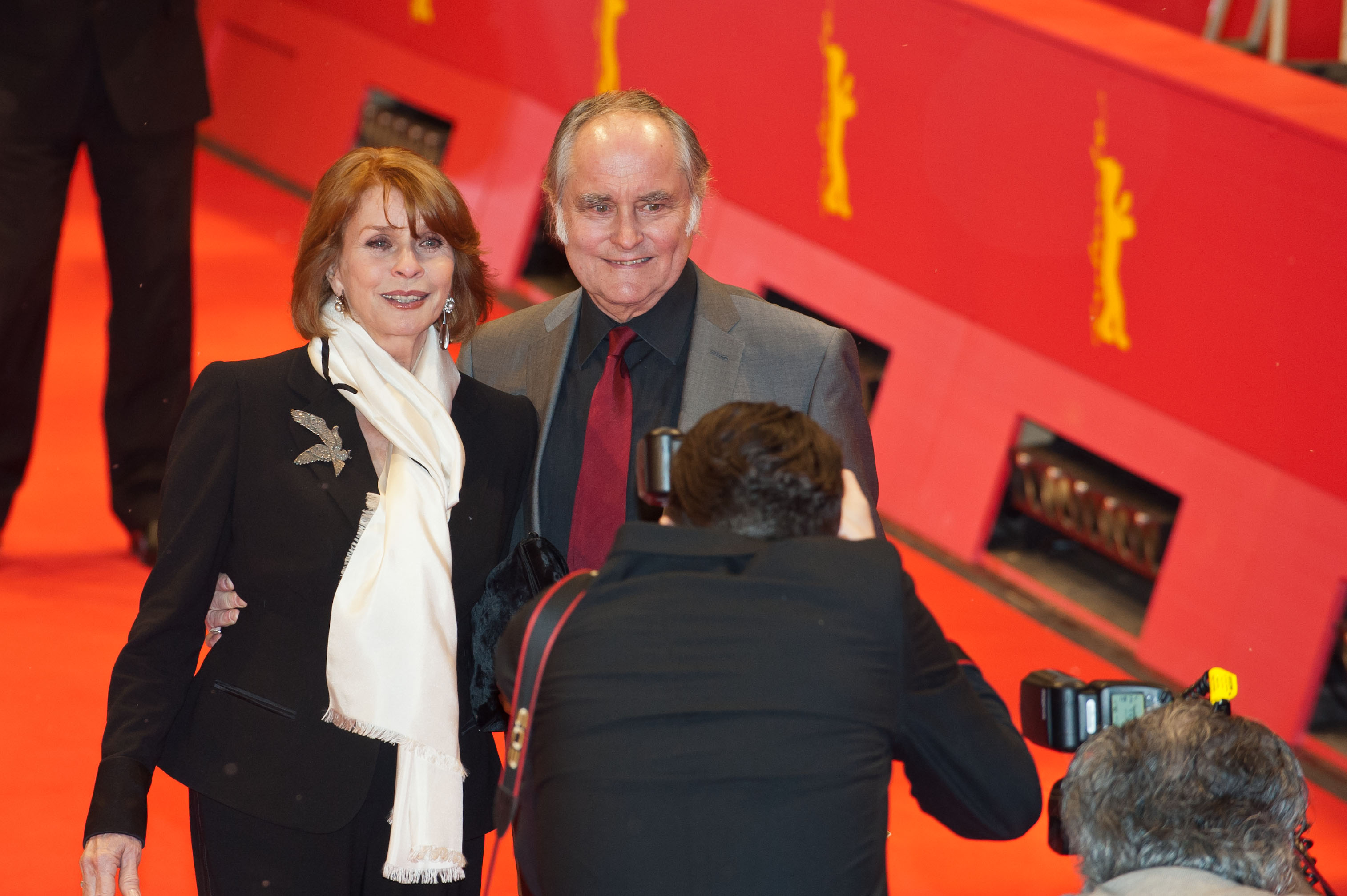 Austrian Actress Senta Berger with husband Michael Verhoeven at the Berlin Film Festival 2013